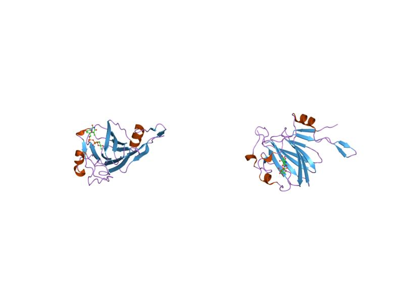 Cartoon representation of the molecular structure of protein registered with 2ixh code.